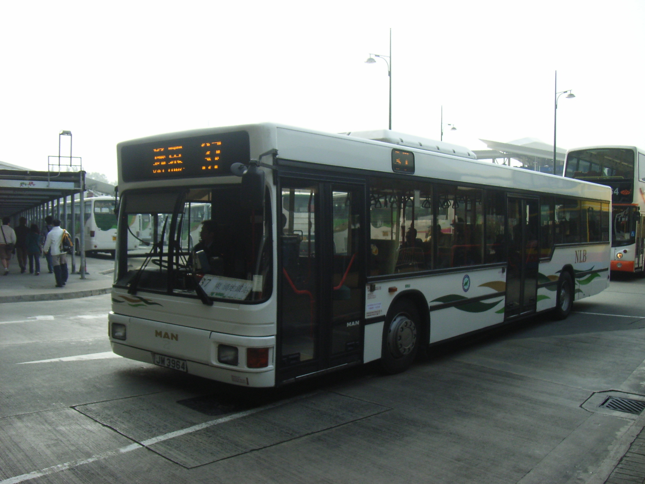 Buses and stations in Tung Chung, Lantau, Hong Kong.